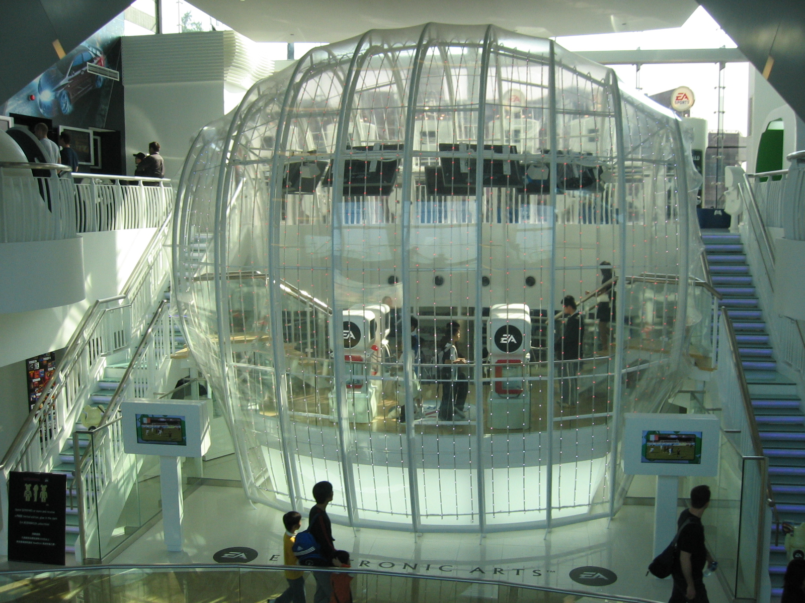 Hong Kong The Peak Tower EA Experience